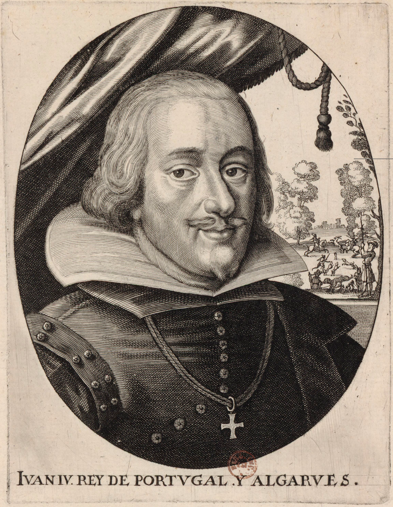 Lithograph of King John IV of Portugal.